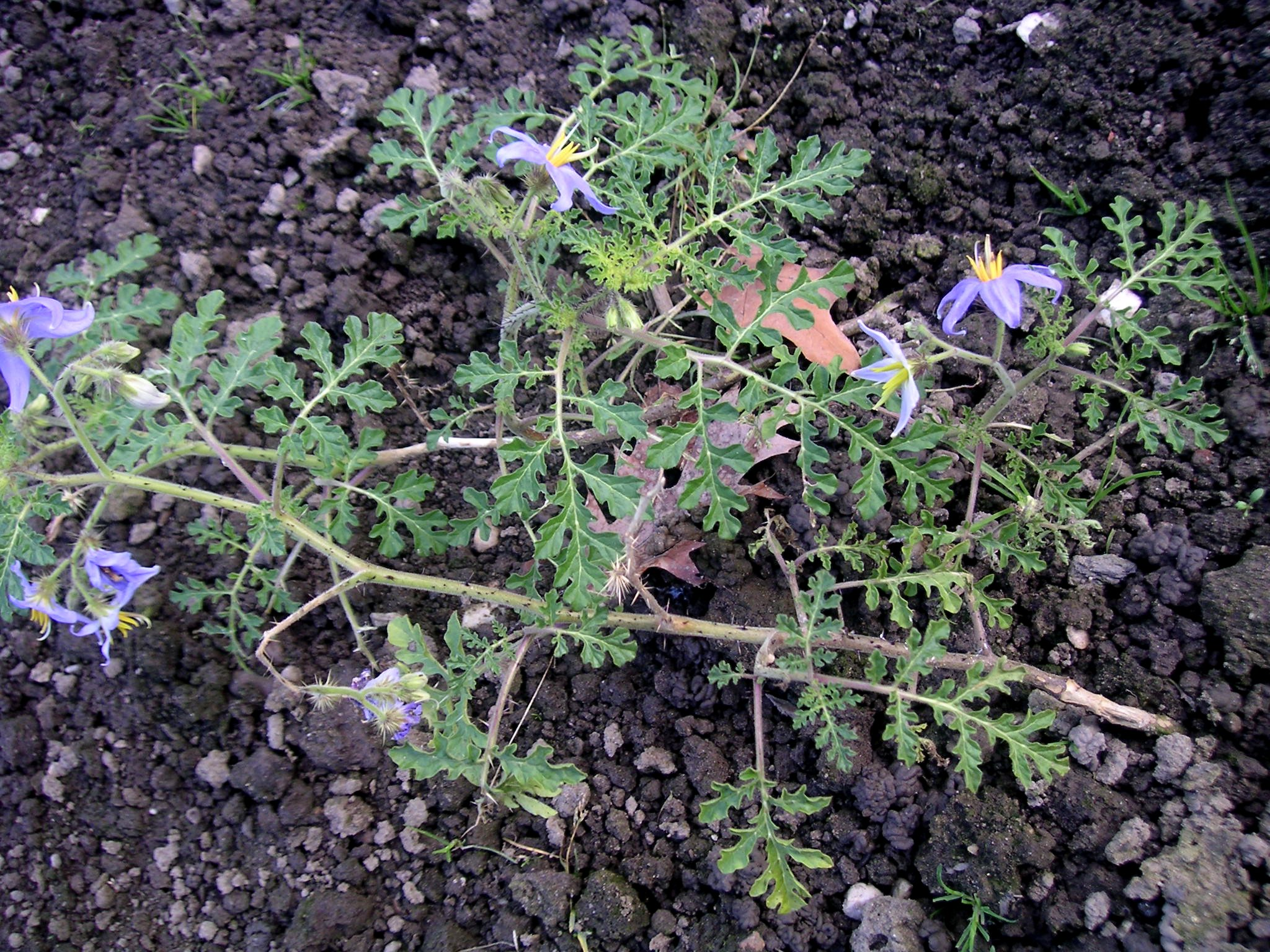 Habit of Solanum citrullifolium at Botanical Garden Krefeld, Germany.